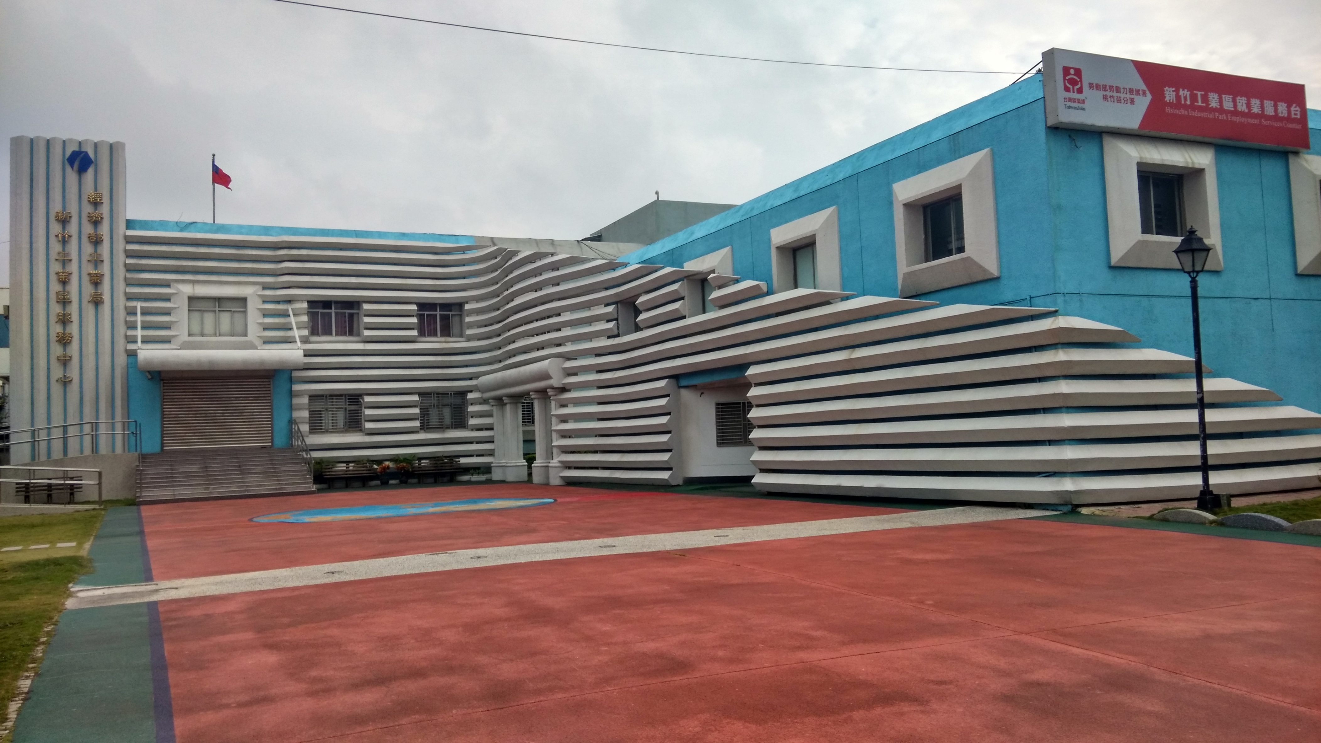 Hsinchu Industrial Park Service Center